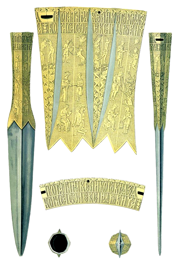 Rohatyn of Boris Aleksandrovich Tverskoy 1425